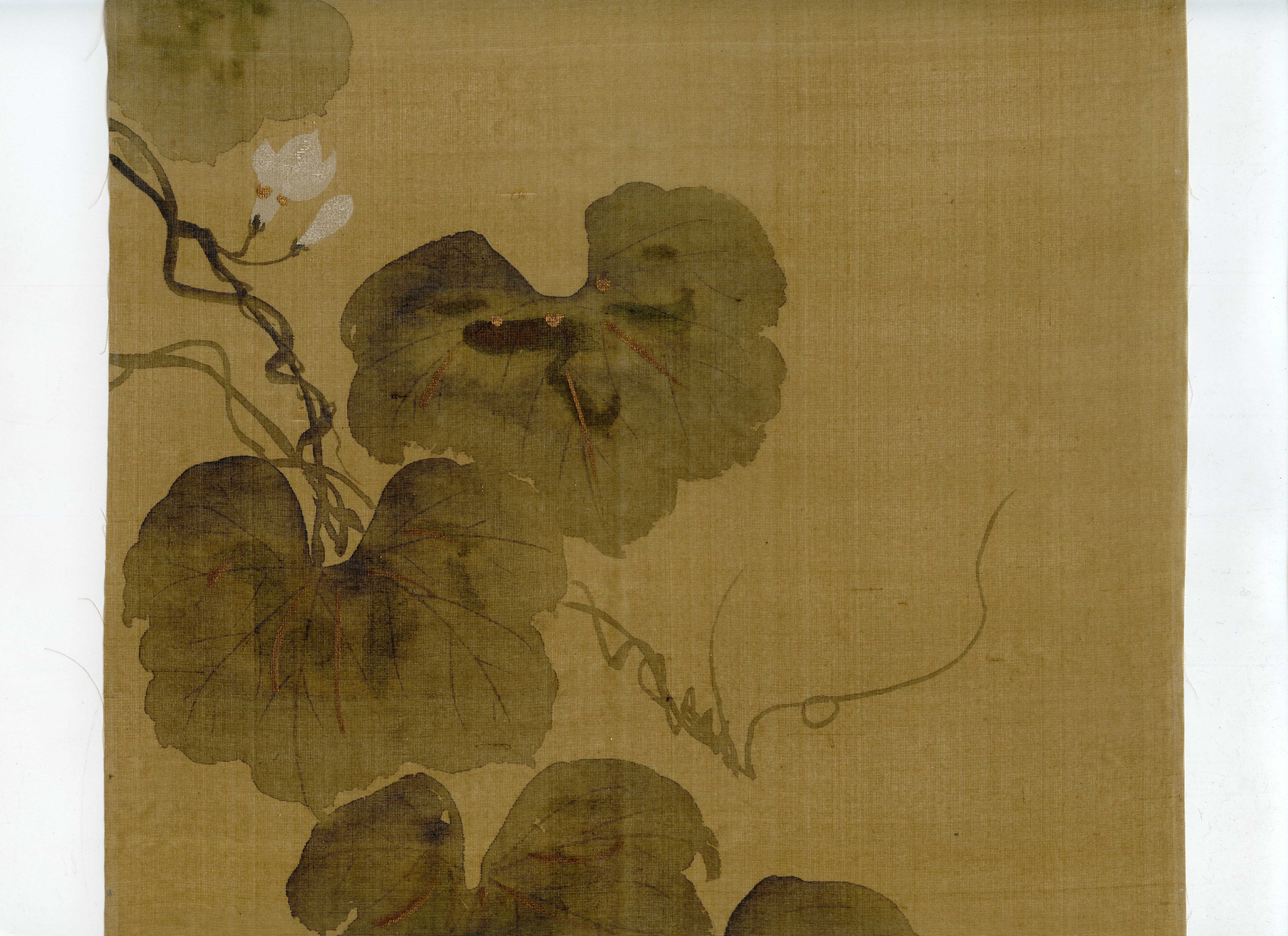 wittig.collection.painting.02.flowering.gourd.vine.rinpa.school.signature.&.seal.of.sakai.hoitsu.scanset.03.of.07